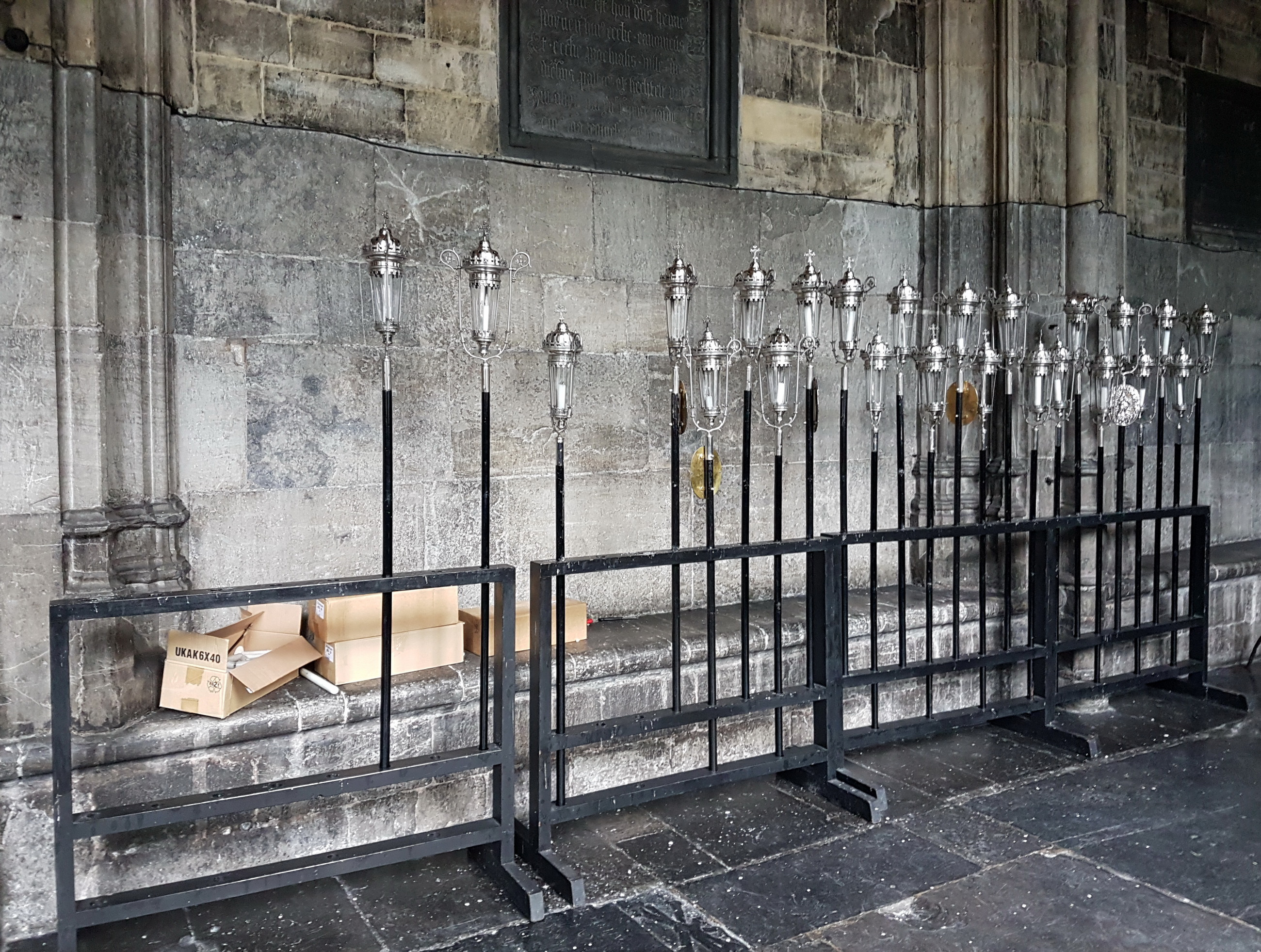 Processional lanterns in the east corridor of the cloisters of the Basilica of Our Lady in Maastricht, the Netherlands.